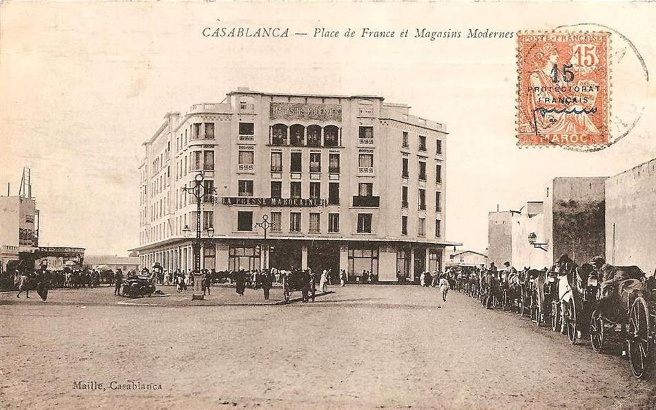 Magasins Modernes, Magasins Paris-Maroc, Galeries Lafayette, Galeries Marocaines, in Casablanca, Morocco.